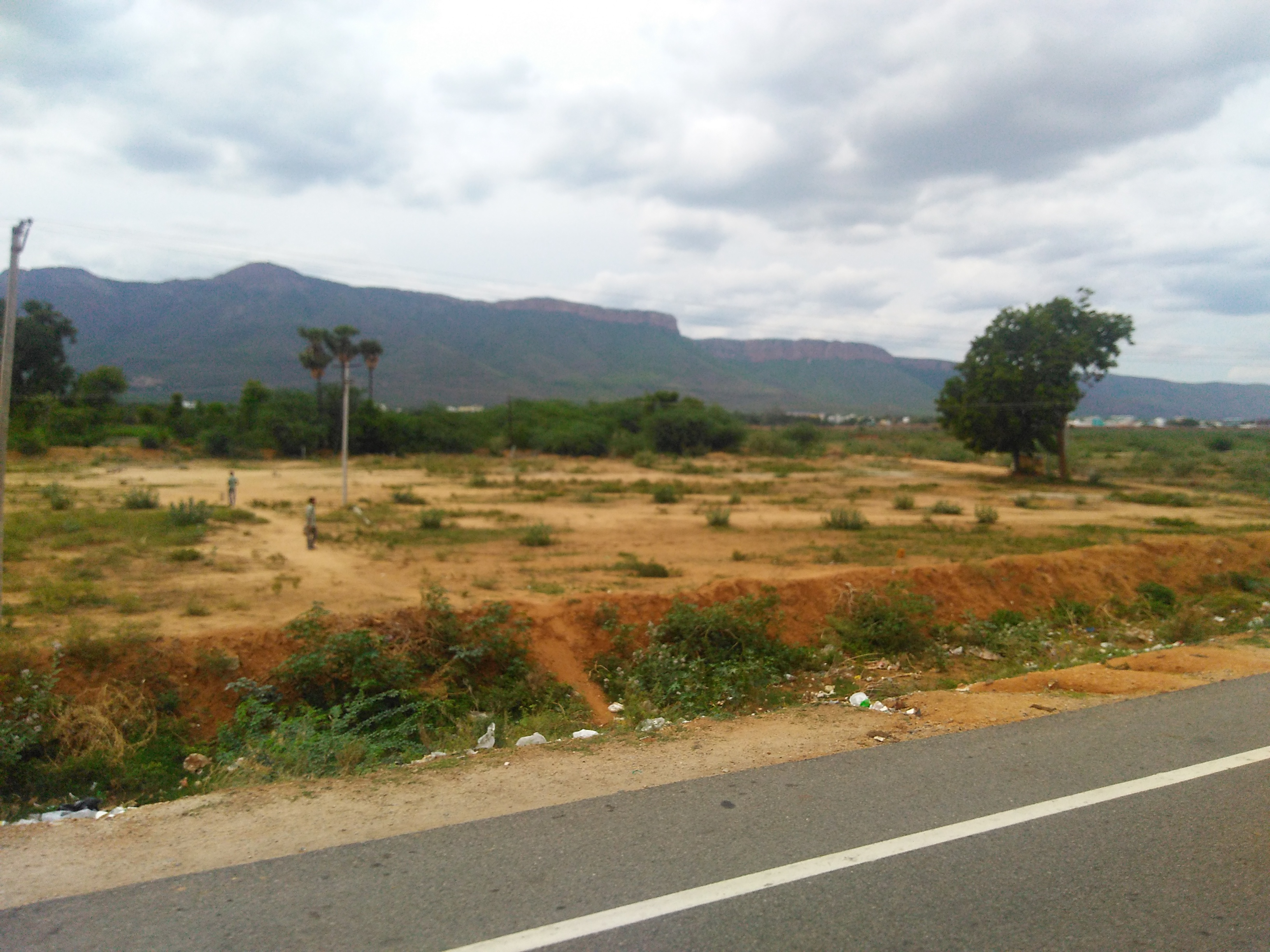 Traveling clip